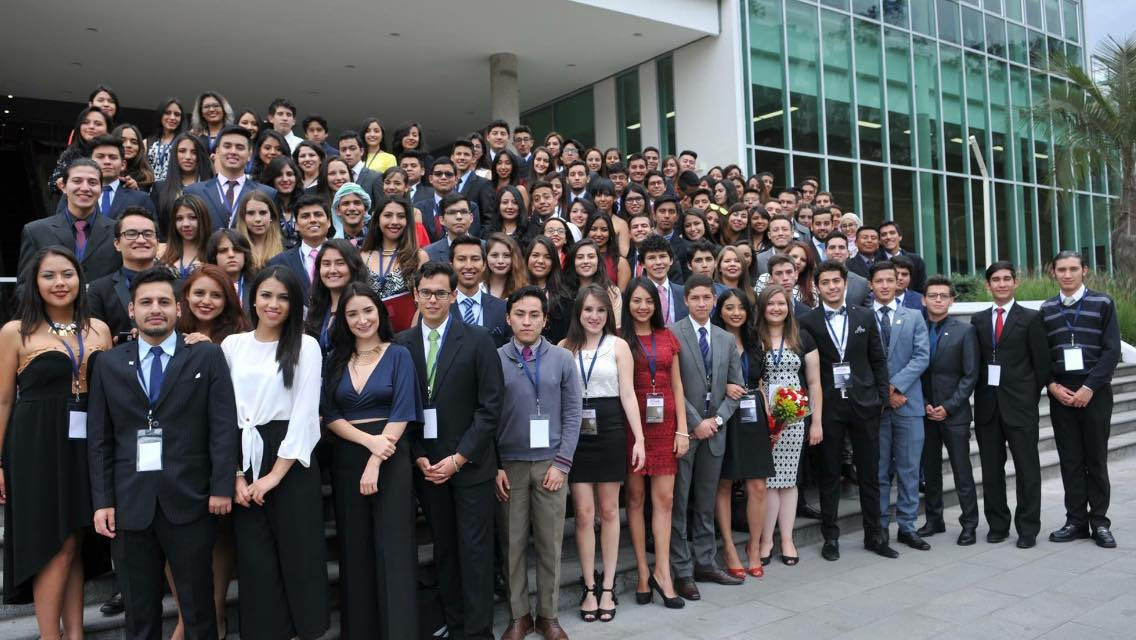 Ejemplo de Prudencia. Imagen: Modelo de ONU UDLA 2017, Quito-Ecuador